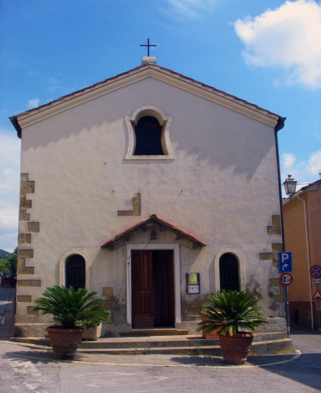 Oratorio della Madonna delle Grazie, Riparbella (Pisa, Tuscany, Italy)